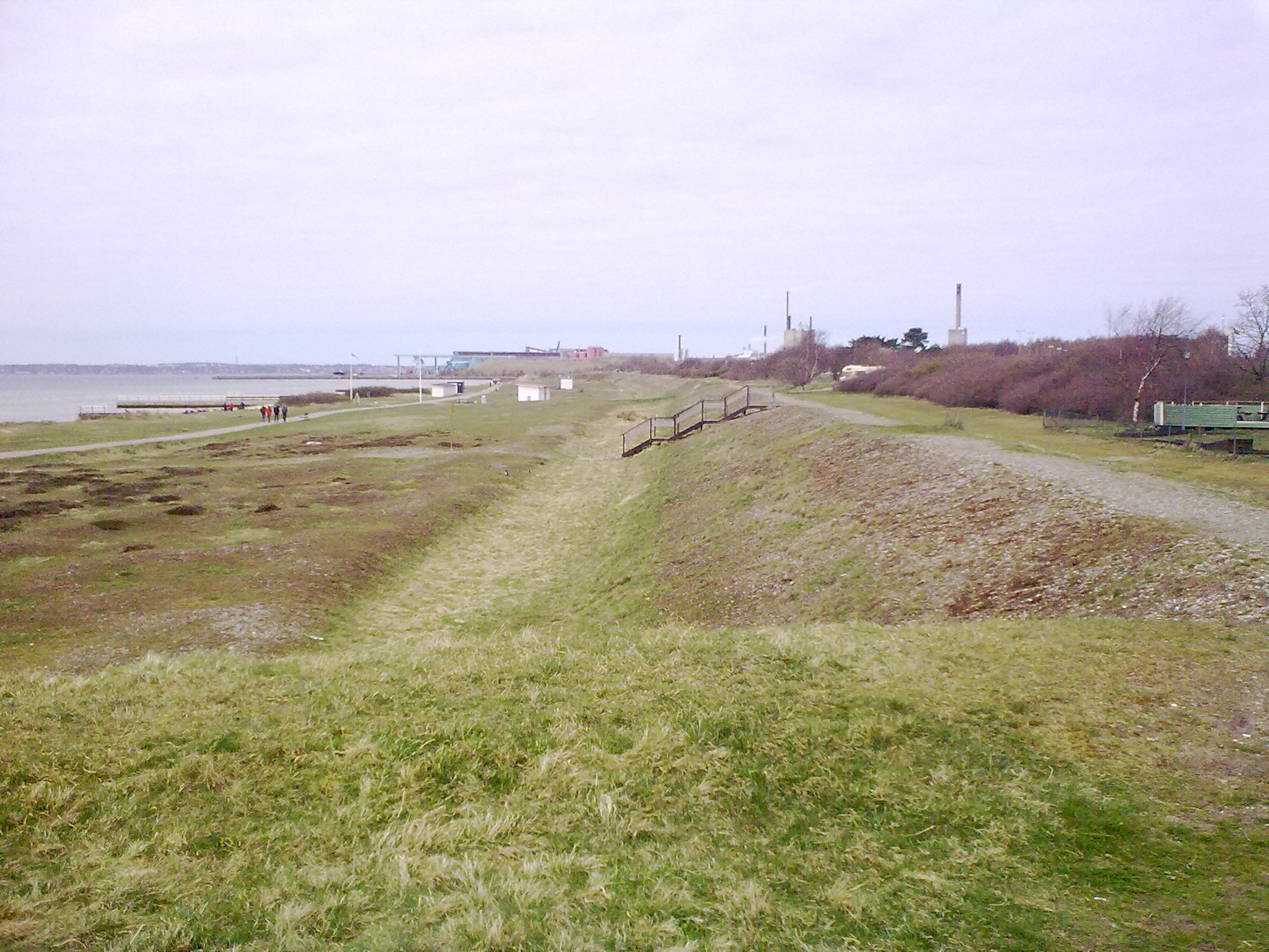 Råå vallar (Raa walls), beach with remnants of 16th century fortifications in the southern part of Helsingborg, Sweden.